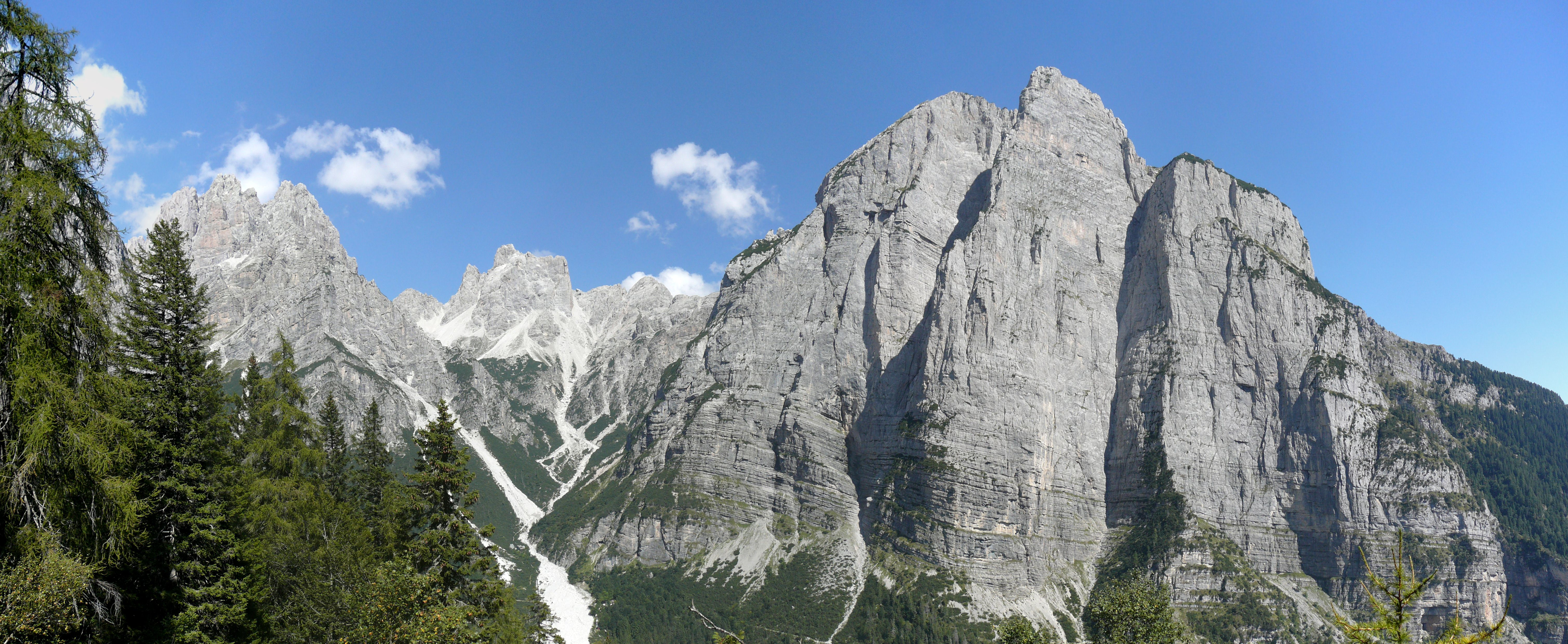 Mountains of the Dolomites of Brenta, Province of Trento (Italy)